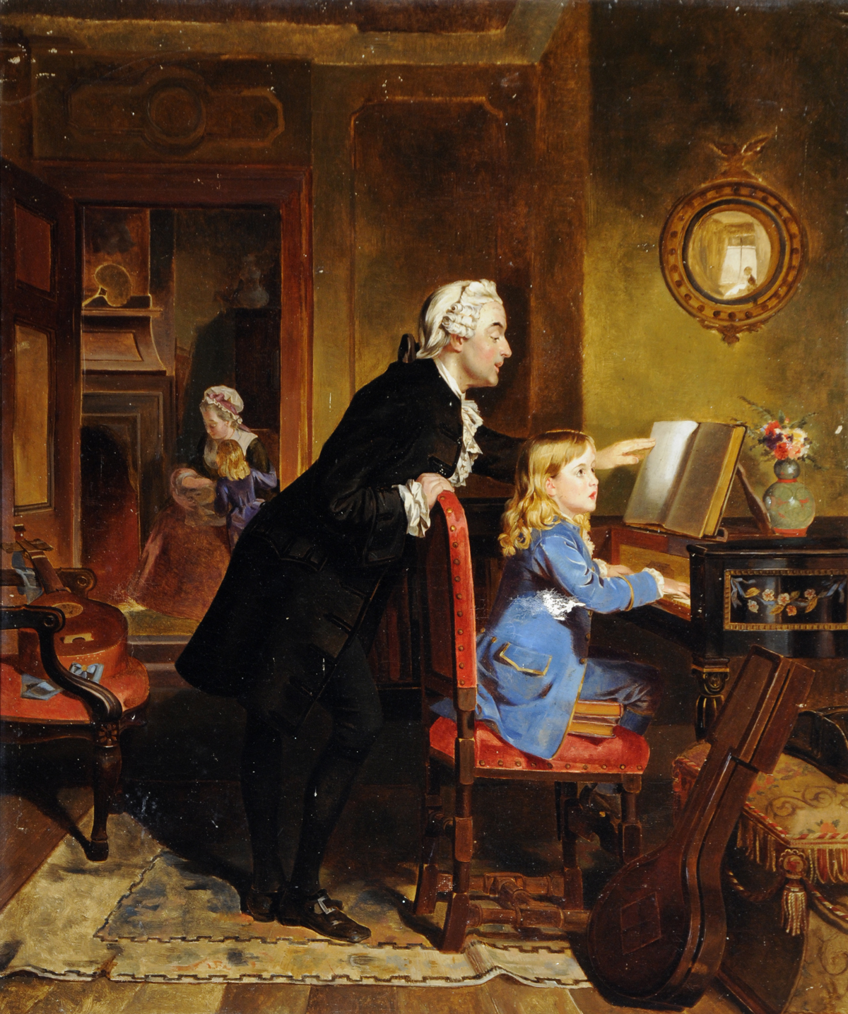 XIX centruy picture showing young Mozart and his father Leopold.